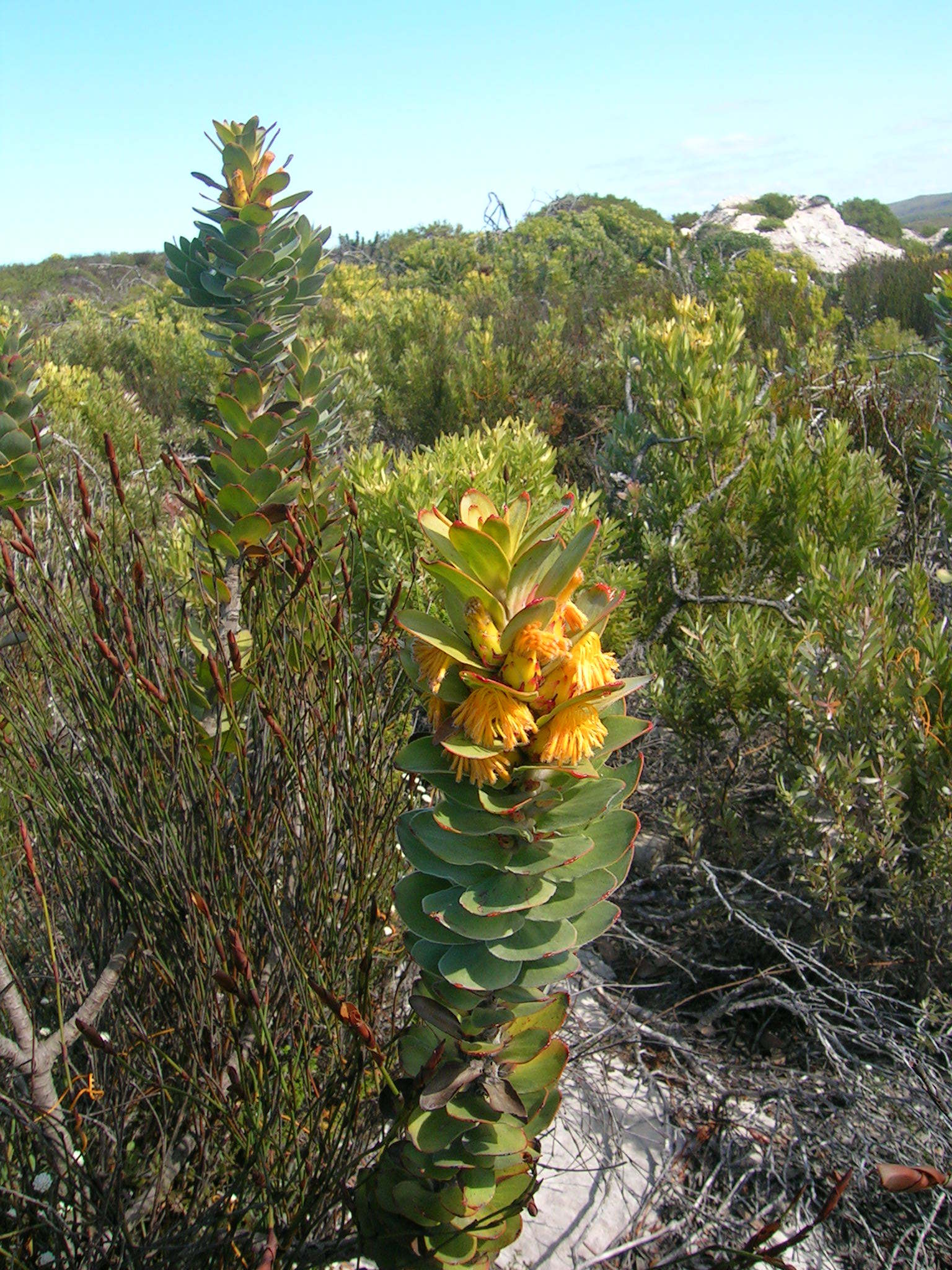 A limestone pagoda, Mimetes saxatilis, photographed by Nick Helme, on 16 August 2005, at Struis Bay, Agulhas Plains, Overberg County, Western Cape province, South Africa